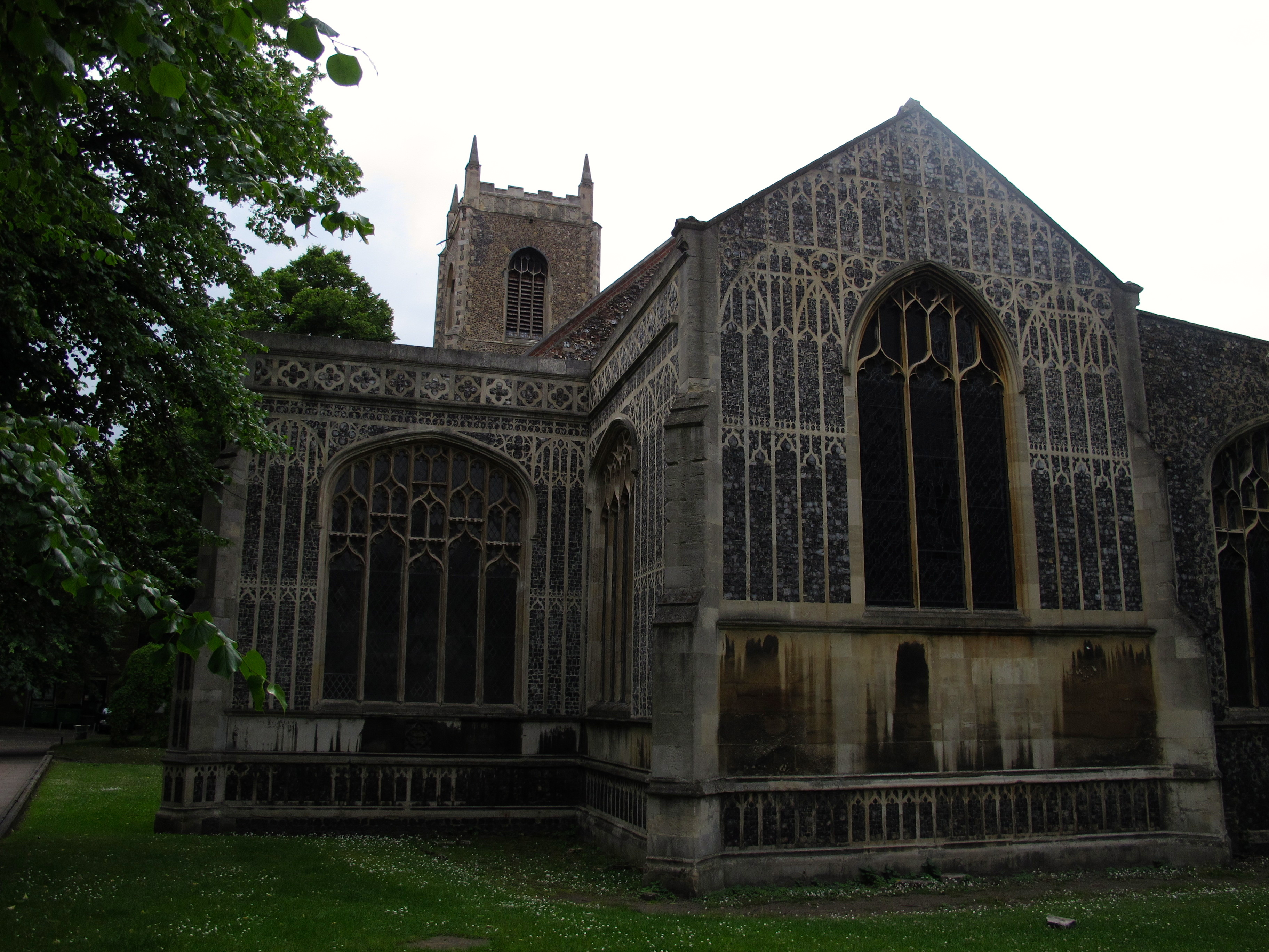 Church of St Michael Coslany is noted for its remarkable display of flushwork – patterns made with white stone against black flint. That on the south aisle is original fifteenth century work. The south aisle (and demolished porch) were added in 1500, by Alderman Gregory Clark; the chapel at its east end was added around the same time by Robert Thorpe, as his chantry chapel. The north aisle was built by Alderman William Ramsey in 1502-04.